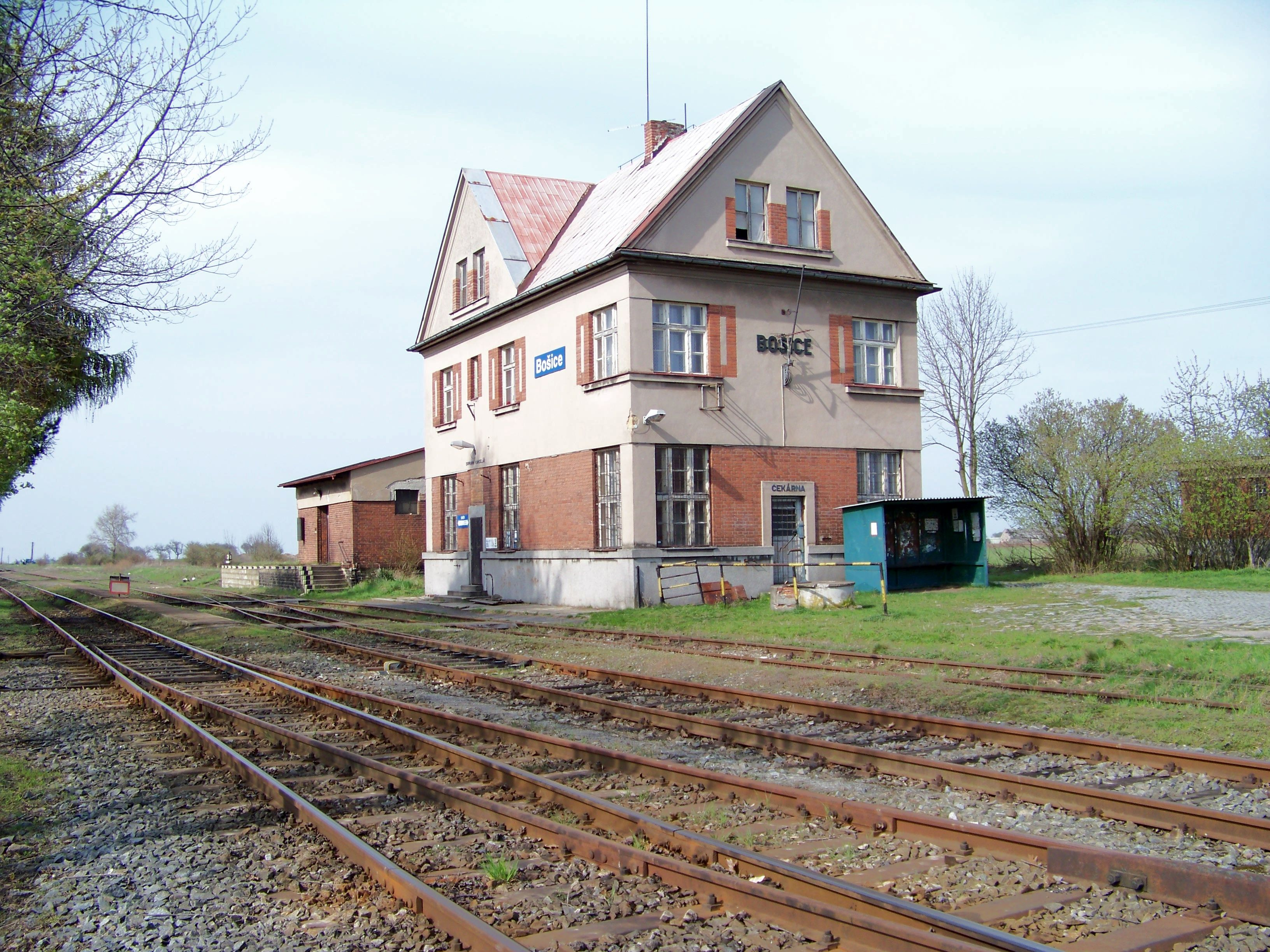 Svojšice-Bošice, Kolín District, Central Bohemian Region, the Czech Republic. The train station.